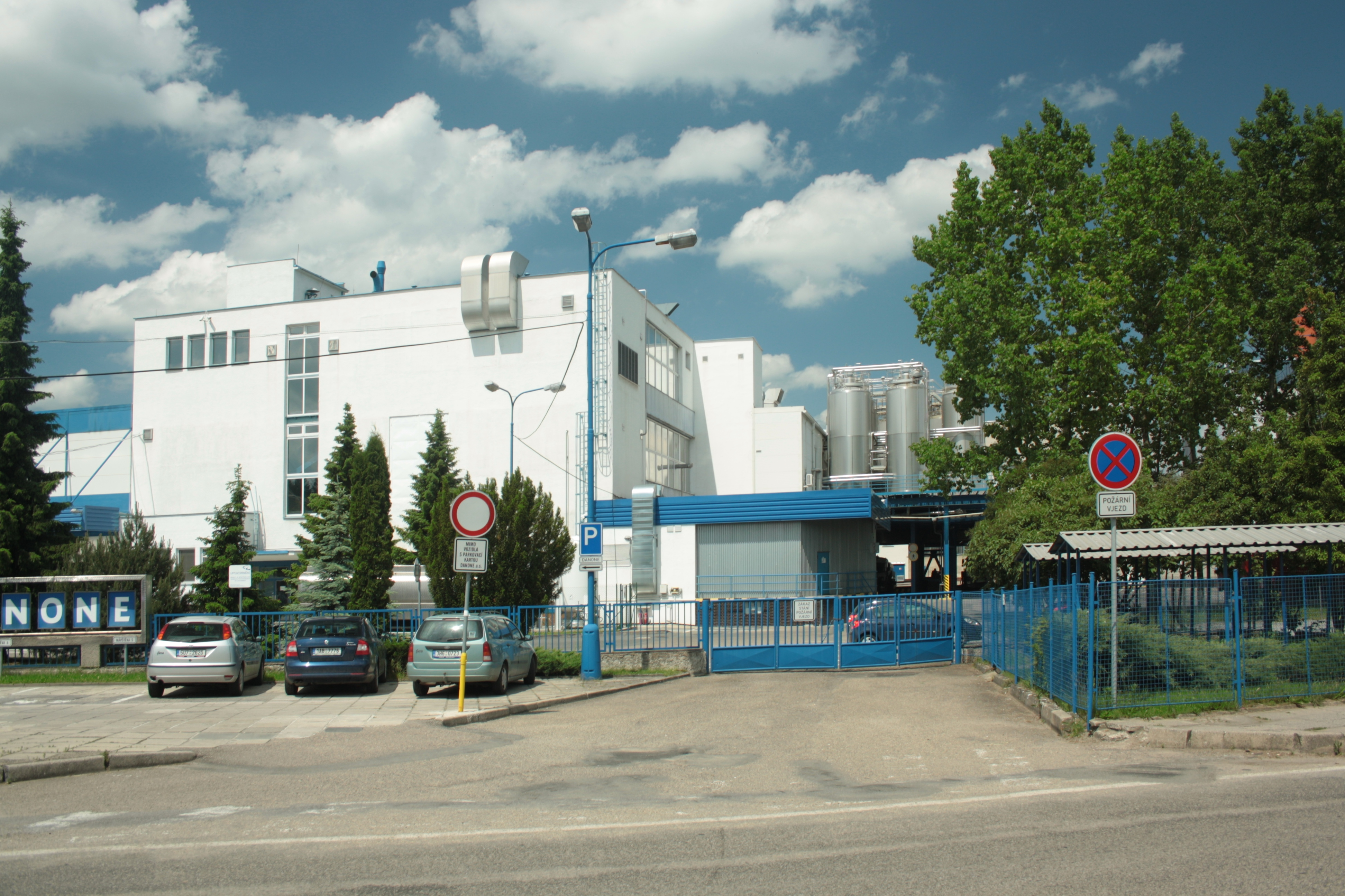 Danone food processing facility in Benešov, Central Bohemian Region, CZ